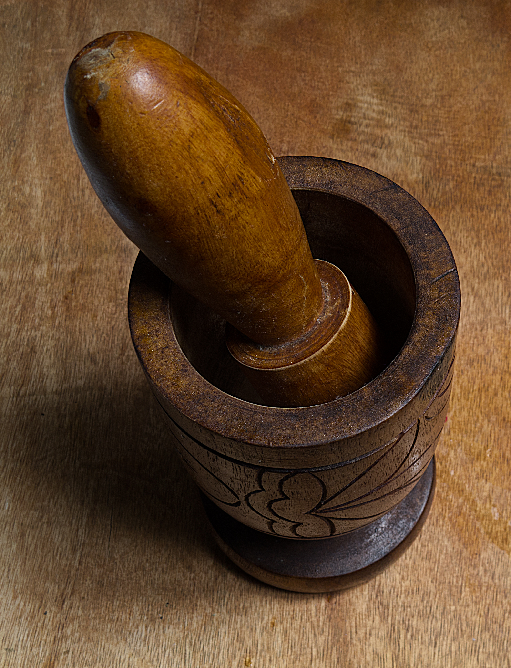 A mortar and pestle (pilón) used for making Mofongo